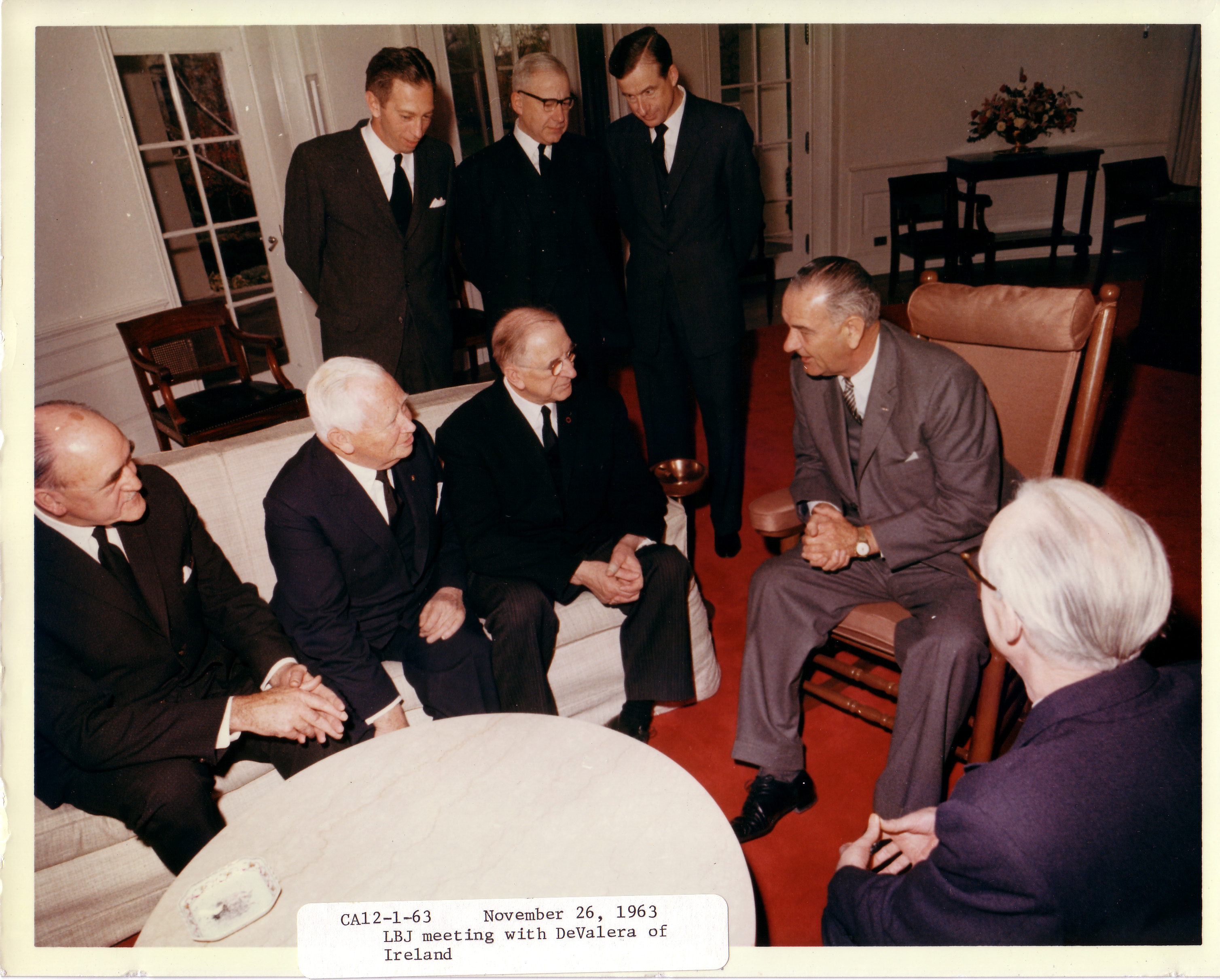 President Lyndon B. Johnson meets Éamon de Valera, President of Ireland, after the funeral of John F. Kennedy. Standing, left to right: (?); Maj. Vivion de Valera, T.D. (son of President Éamon de Valera); Dr. Éamon de Valera (son of President Éamon de Valera). Seated, left to right: Frank Aiken, Irish Minister for External Affairs; ? Sean T. O'Kelly, previous President of Ireland; Éamon de Valera, President of Ireland; Lyndon B. Johnson, President of the United States; ? Thomas J. Kiernan, Irish Ambassador to the United States.